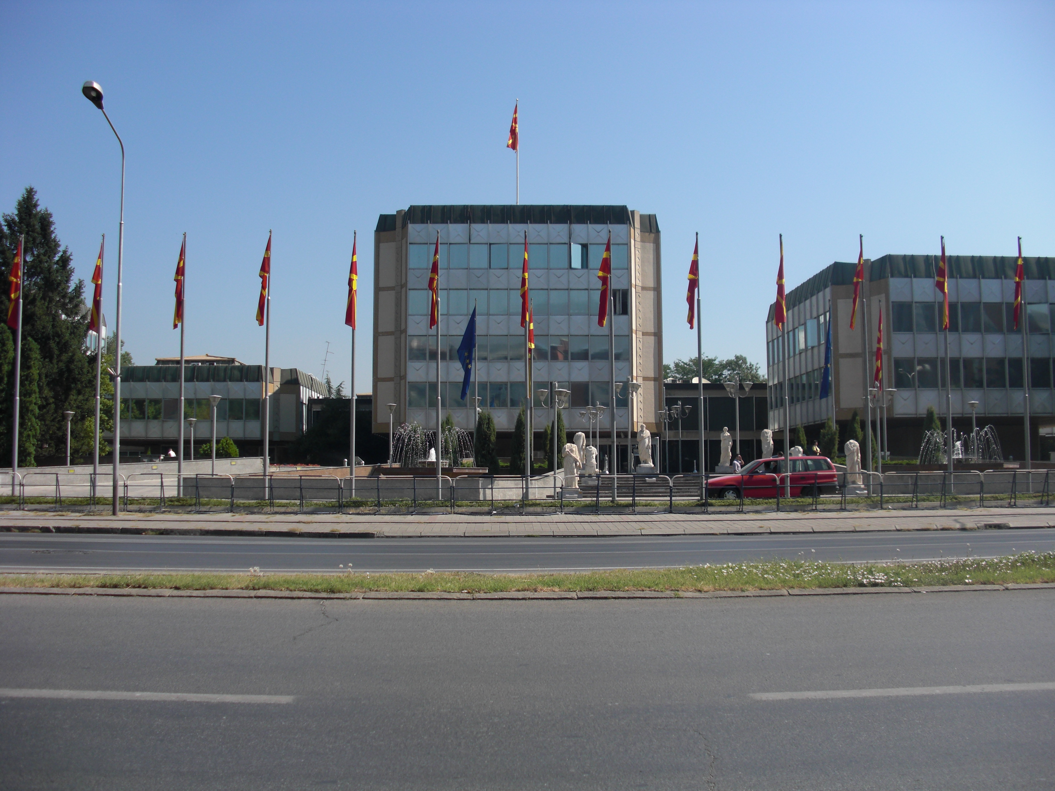 Government buildings in Skopje, Rep. of Macedonia